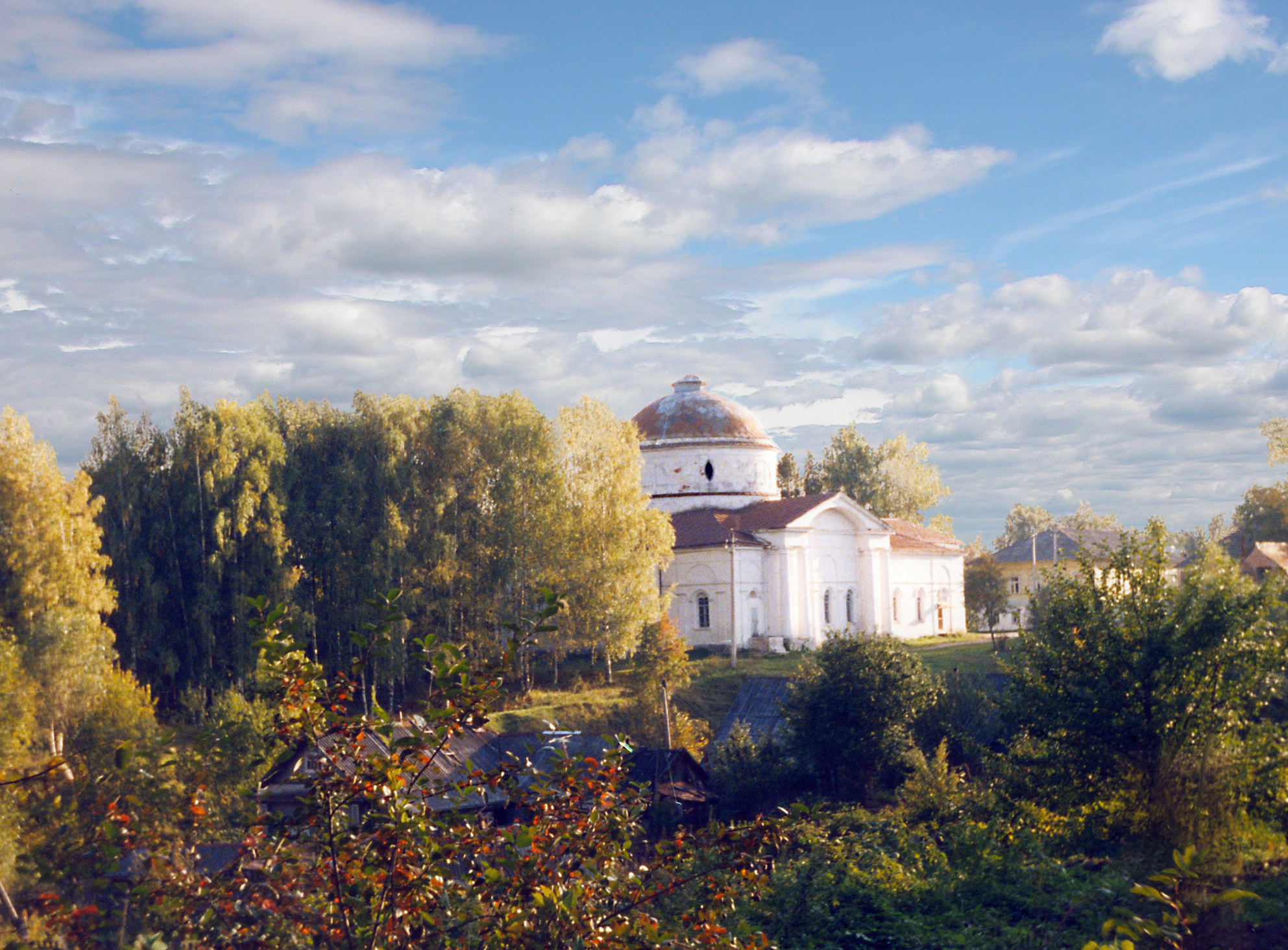 The Church of St. Nicholas. The town of Myshkin, Yaroslavl Oblast, Russia